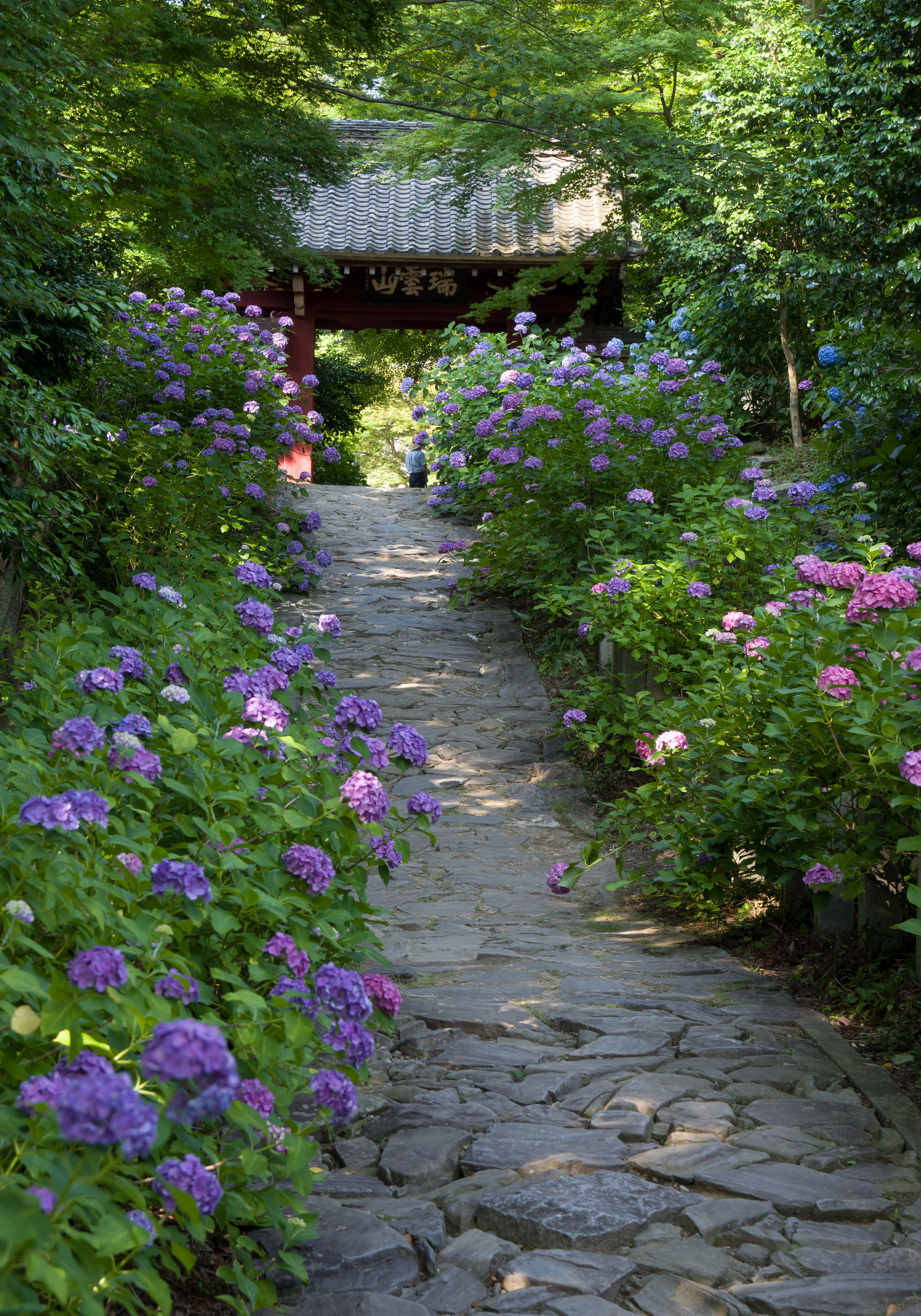 Front Approach to Honkoji Temple with hydrangea in Kota Town, Aichi, Japan.